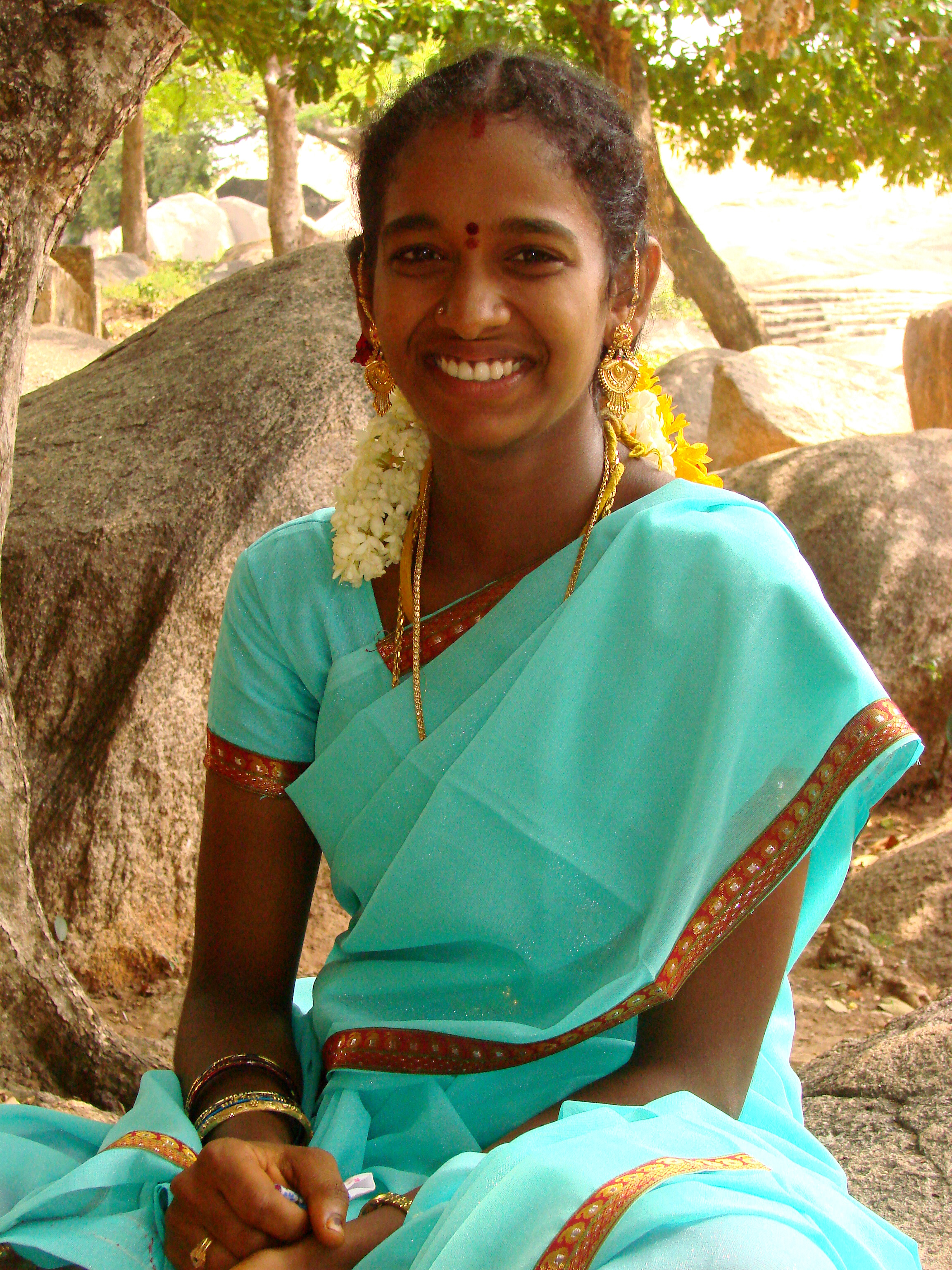 Young woman in traditional dress, Mamallapuram, India.